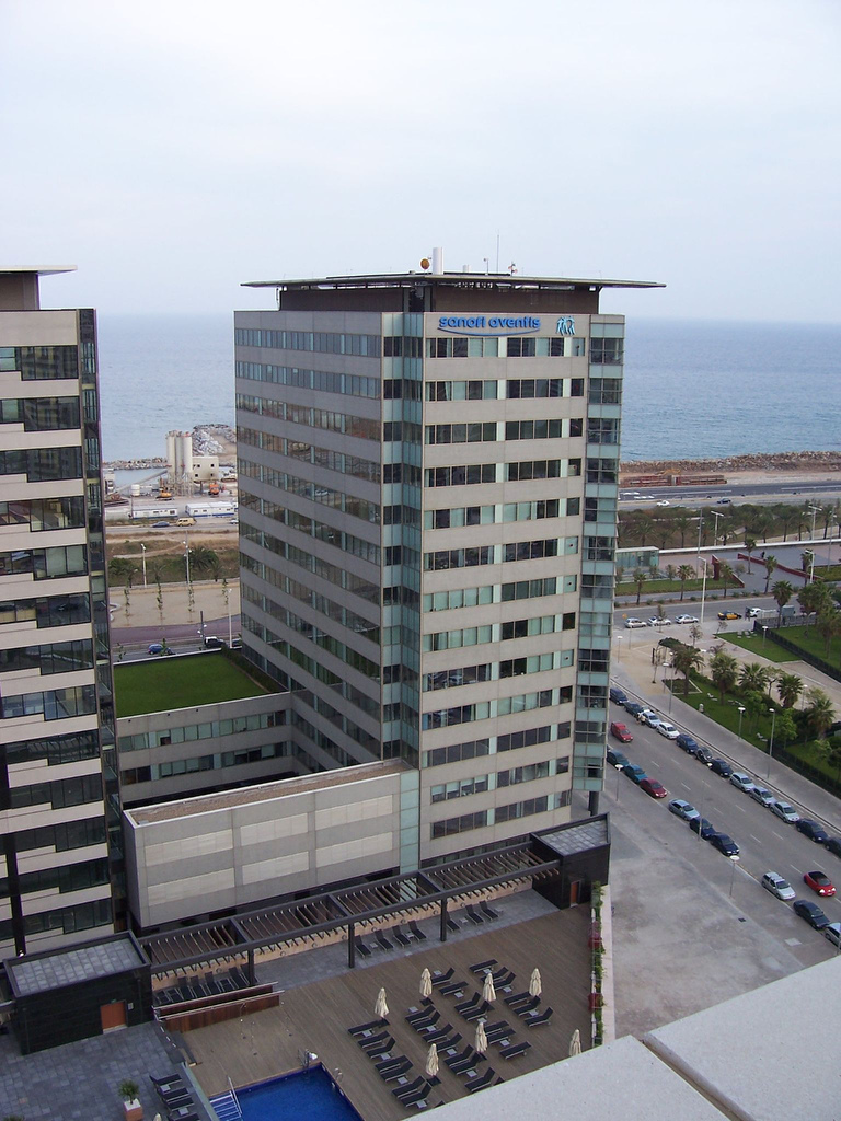 Sanofi-Aventis headquarters in Spain